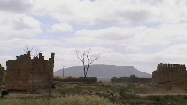 Jbel Lakhdar, from Khemis Jsiba Walon: li Djebel Xhedar, veyou di Xhemiss Qsiba